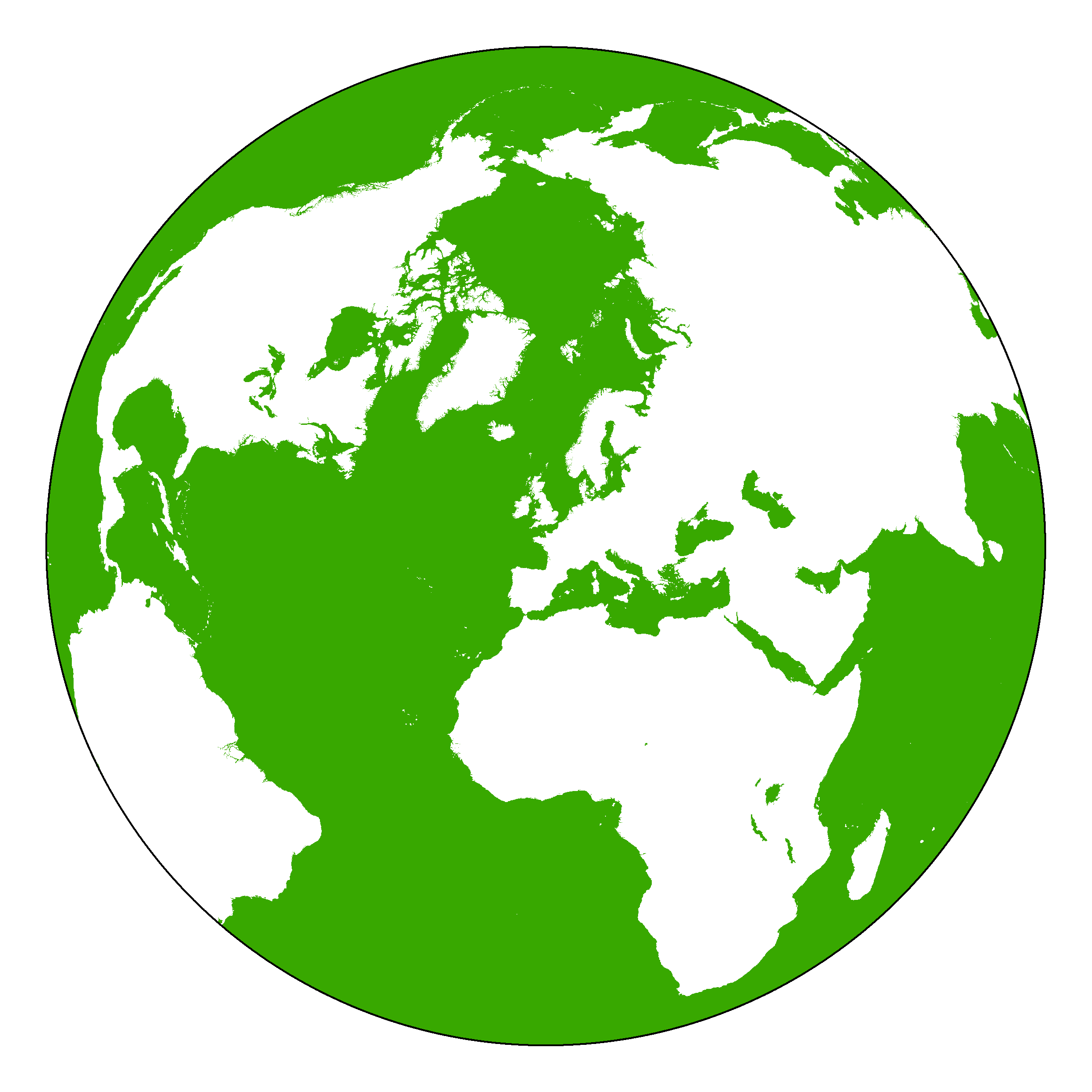 The land hemisphere. Equal-area projection.